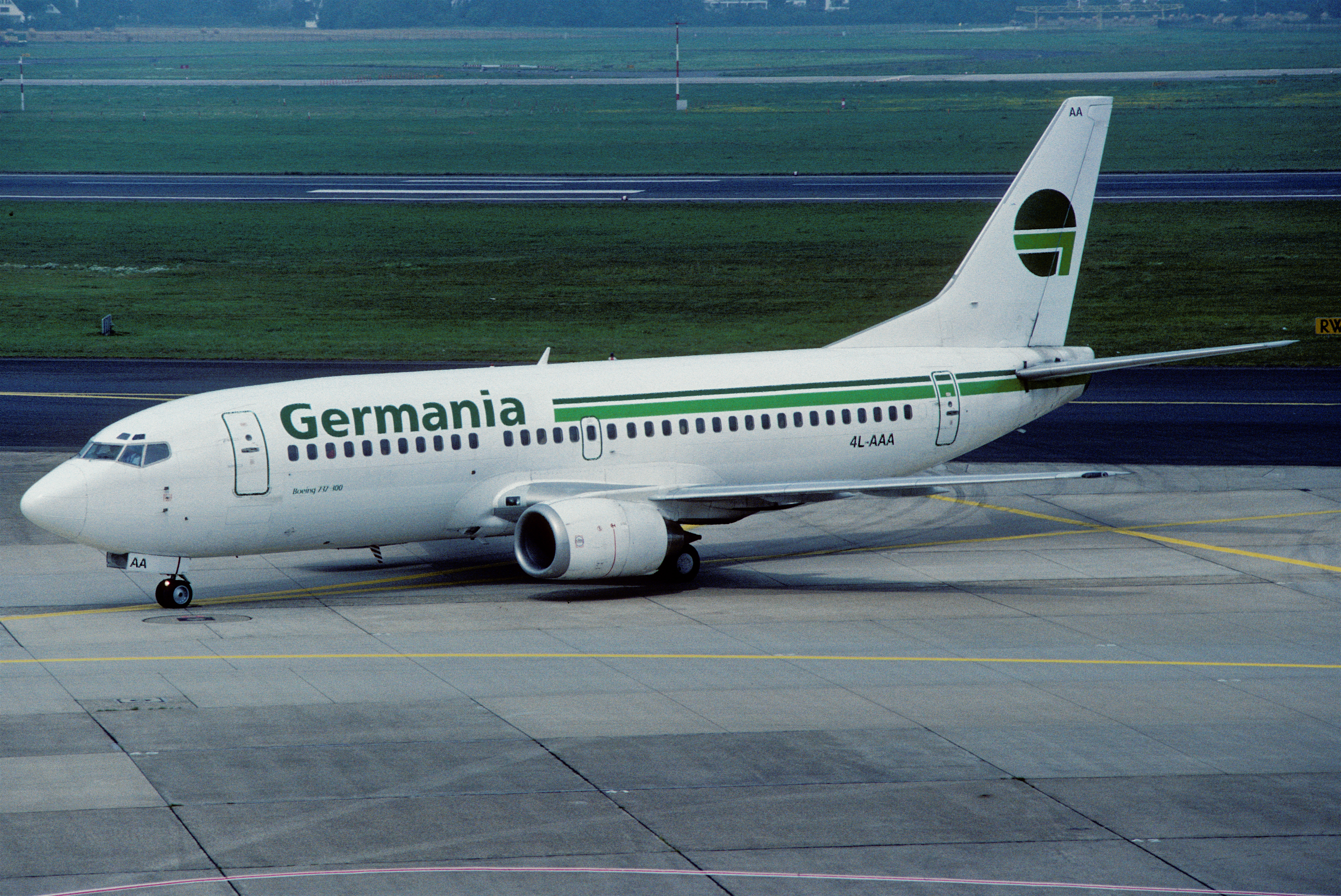 This Boeing 737-375 took its first flight on June 1, 1987...(c/n 23708/ 1395) 12/06/1987 Canadian Airlines PT-TEC 12/06/1987 Transbrasil PT-TEC lsd GPA 29/09/1995 ORBI Georgian 4L-AAA lsd GPA 23/04/1996 Germania D-AGEX 08/02/1997 Deutsche BA D-AGEX 08/11/1997 EasyJet G-EZYF 01/06/2005 Kitty Hawk N111KH converted to freighter - returned to lessor GECAS 29/10/2007 20/07/2008 Swiftair EC-KTZ